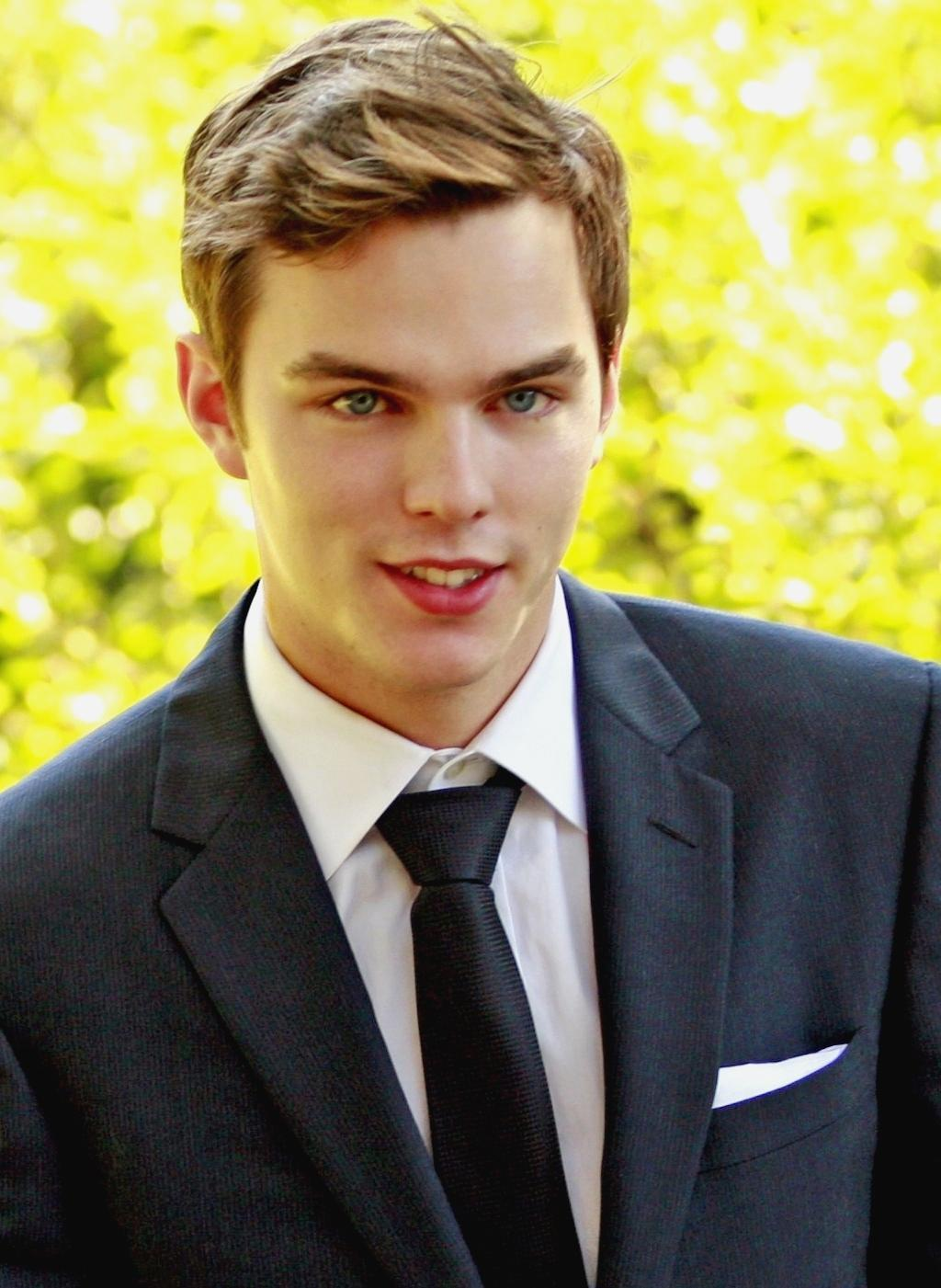 Nicholas Hoult at Santa Barbara International Film Festival 2009